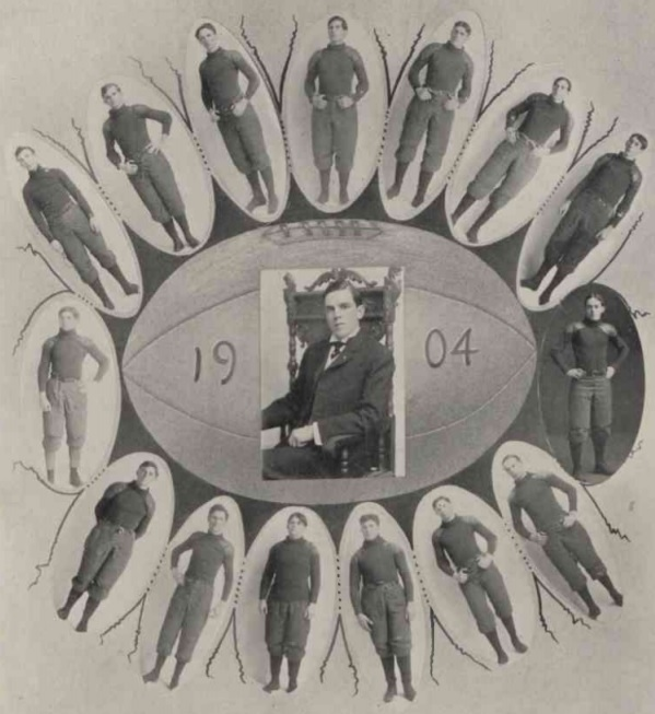 Photo of 1904 LSU Football team